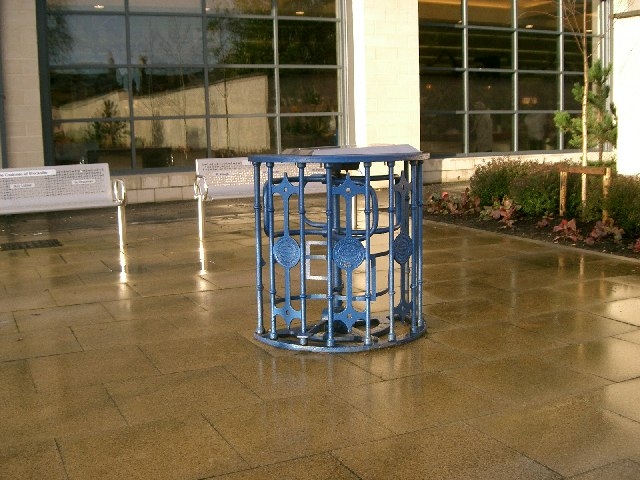 Turnstile. Situated outside Morrisons supermarket this turnstile is a relic of Brockville Park, home of Falkirk FC the former occupants of the site.